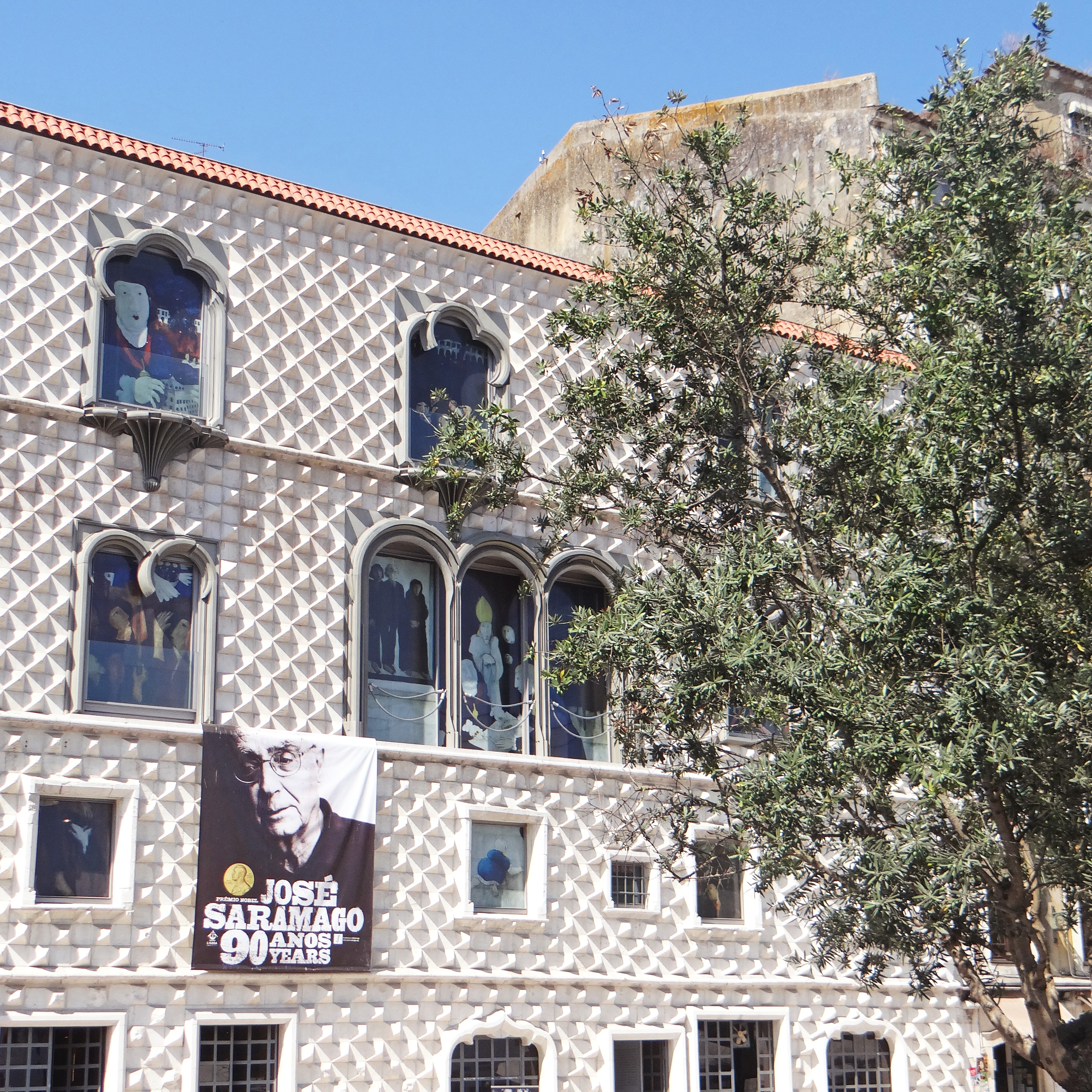 Casa dos Bicos, headquarters of José Saramago Foundation, in Lisbon, with the Saramago's olivetree